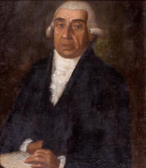 Portrait of Antonios Matesis